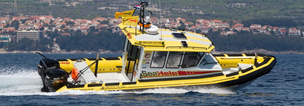 Seahelp boat 2. gen